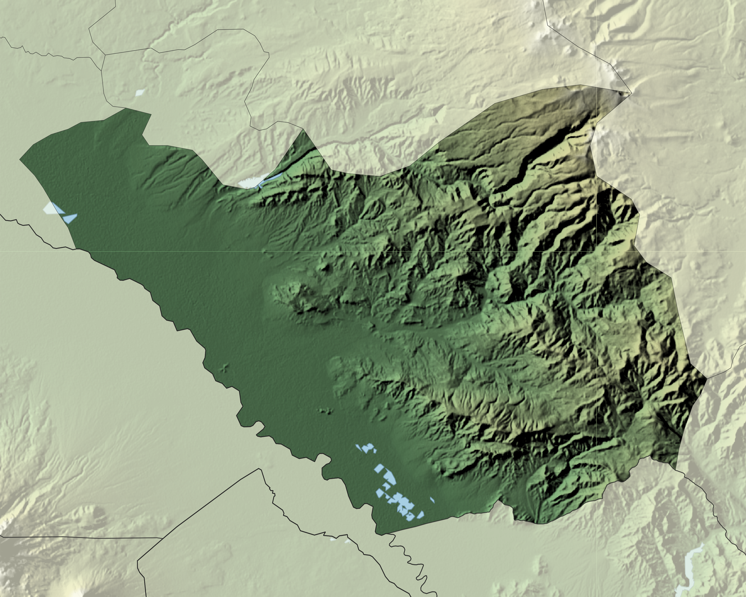 Hillshaded map of Ararat province of Armenia